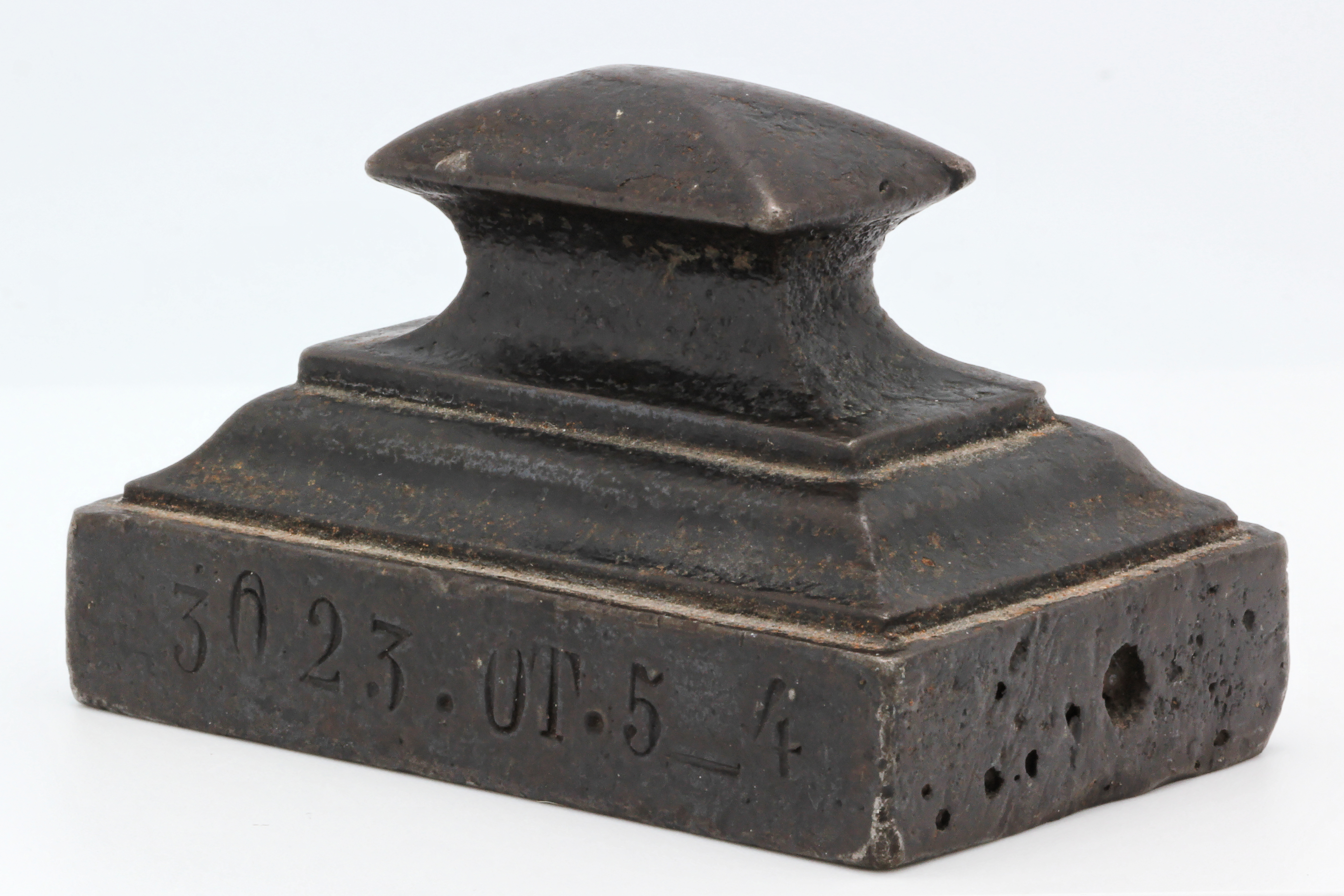 Paperweight